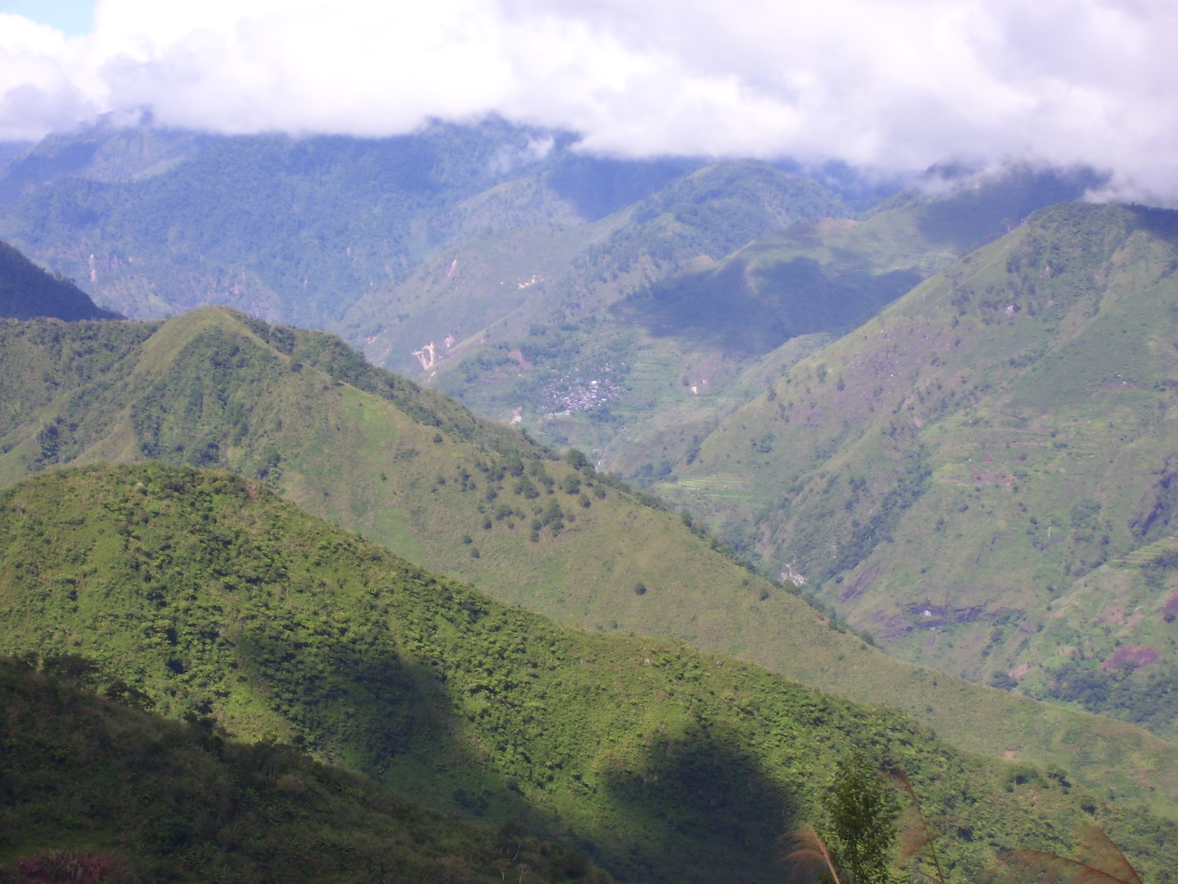 Balatoc (centre) in Pasil River Valley from Mag-mag-an Pass. Northwest flank of Binubulauan volcano in foreground.